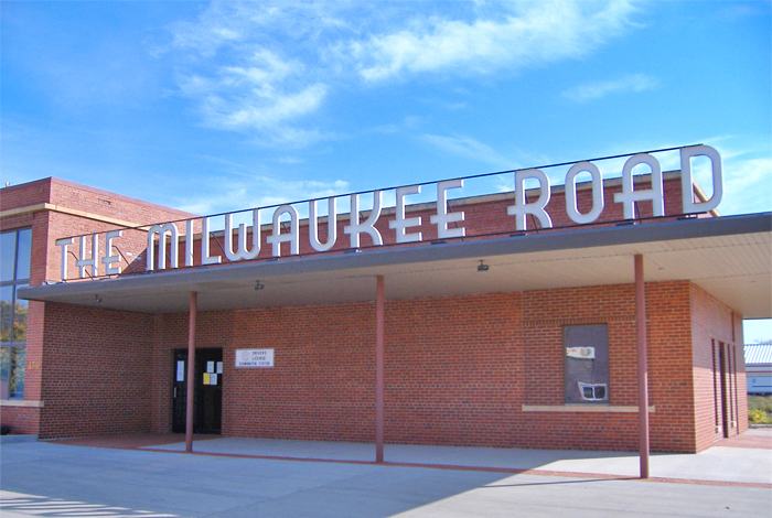 Photo of the old Milwaukee Road depot in Austin, Minnesota. Now used as a drivers license exam station by the State of Minnesota. Taken October 7, 2006.